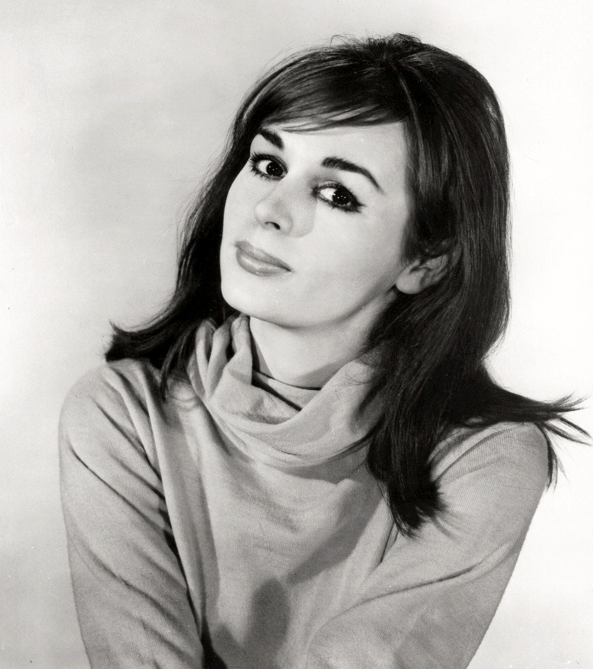 Marianna Hill in Black Zoo (1963) - publicity still (cropped : see source)